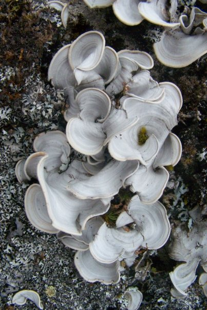 Dictyonema pavonium growing on a rock in Cajas National Park, in the Andes of Ecuador near Cuenca.